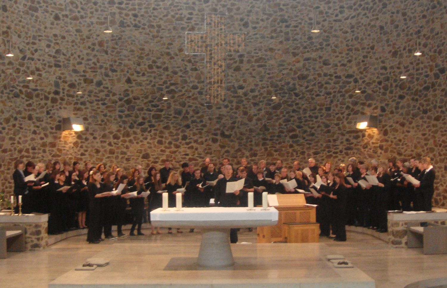 Chor St. Martin and chamber choir Martinis (first row), Franz Fink conductor and singer, Franz Biebl: Ave Maria, 3 June 2012